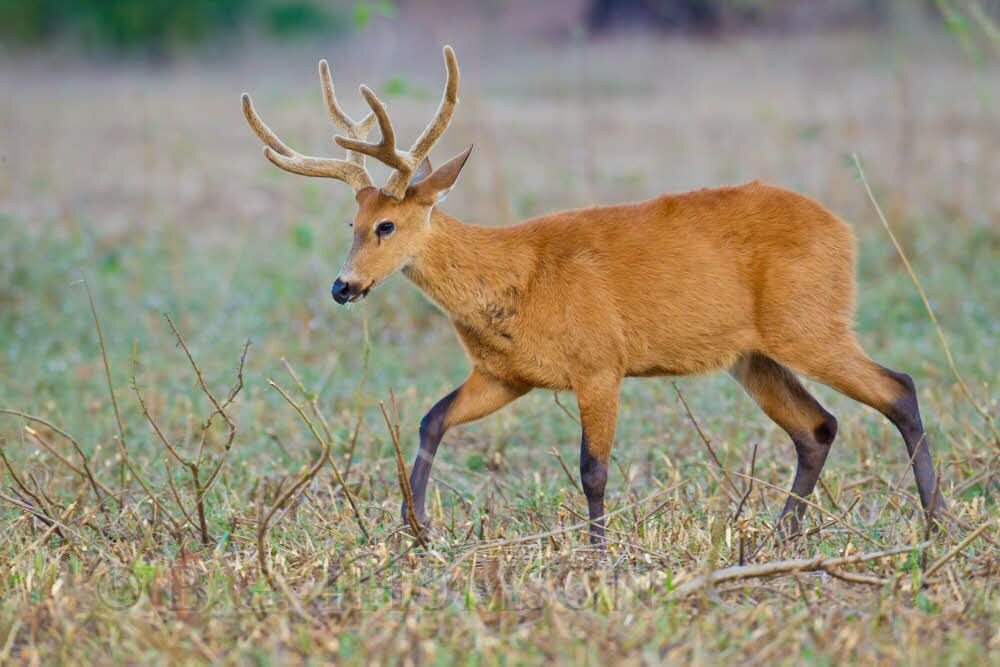 A male marsh deer in Brazilian Pantanal.